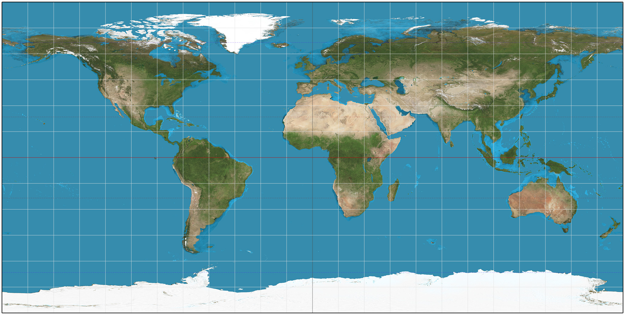 The world on plate carrée projection. 15° graticule. Imagery is a derivative of NASA’s Blue Marble summer month composite with oceans lightened to enhance legibility and contrast. Image created with the Geocart map projection software.